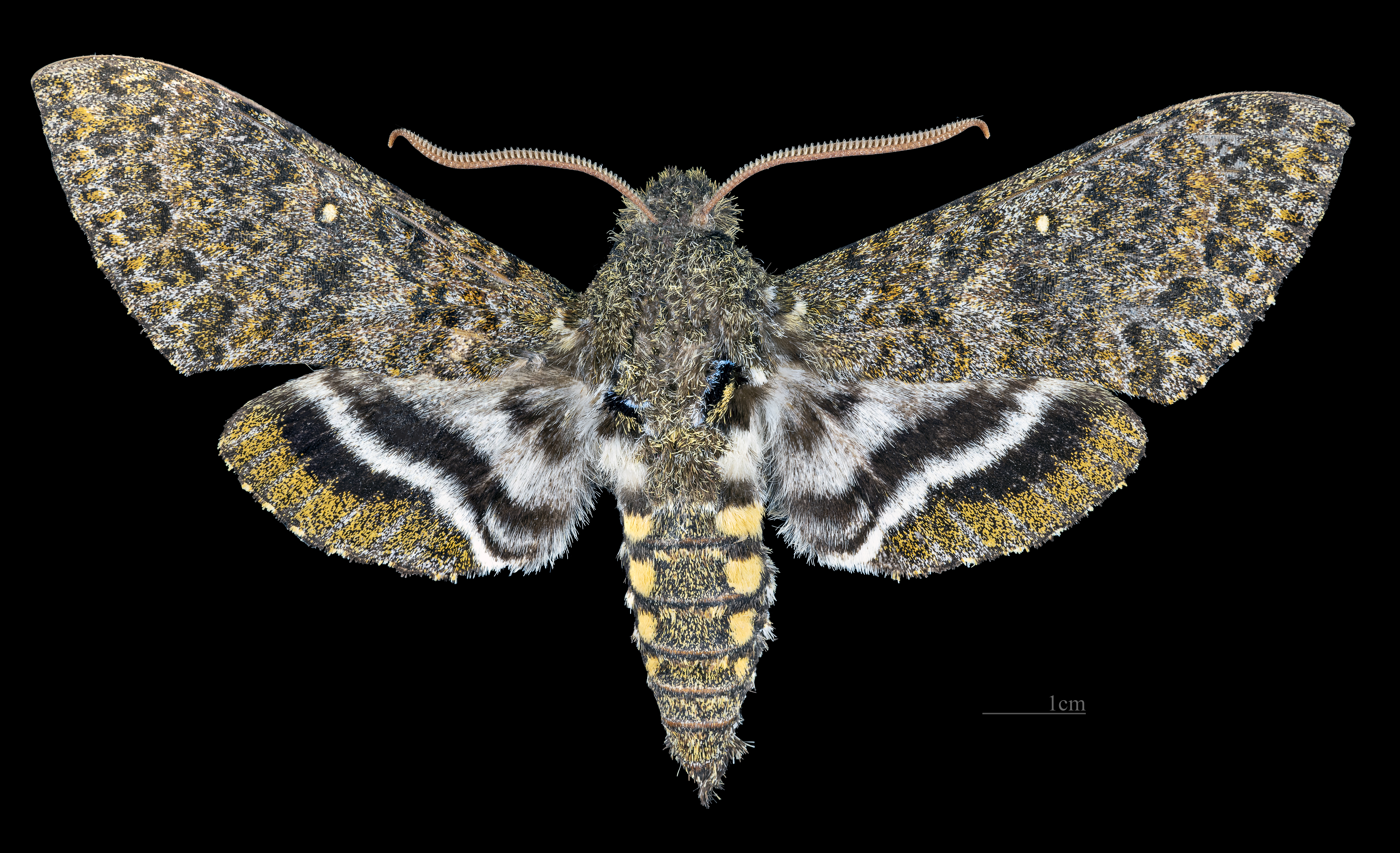 Manduca jordani - Dorsal side Collection of the Mathematician Laurent Schwartz